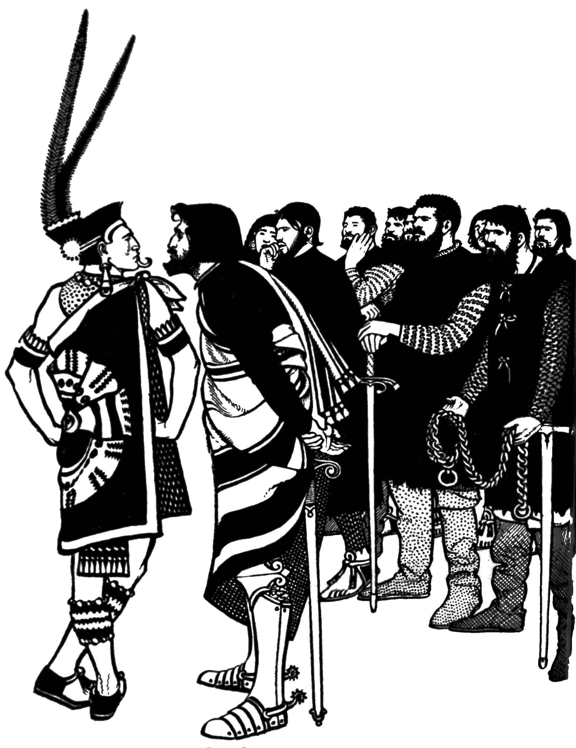 Prince Cacama arrested